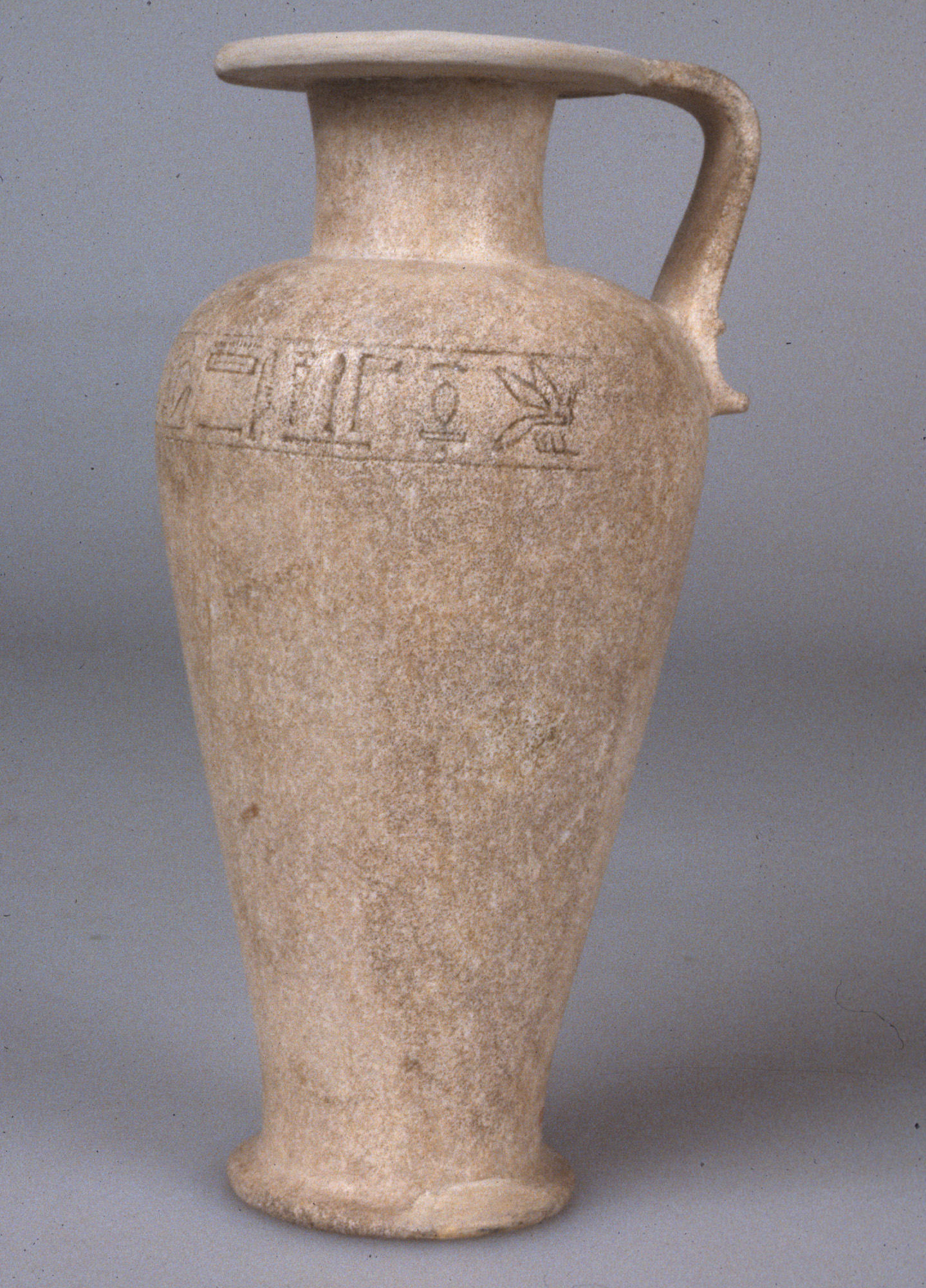 Jug, Menkheperreseneb